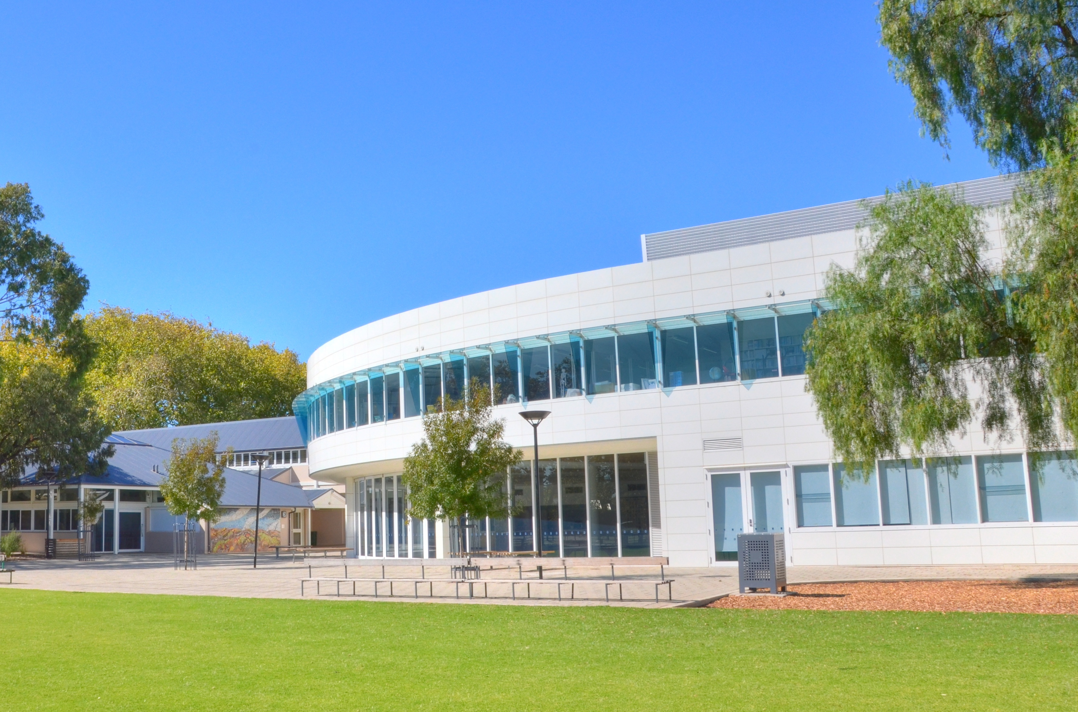 The main buildings at the junior school of St Peter's College, Adelaide